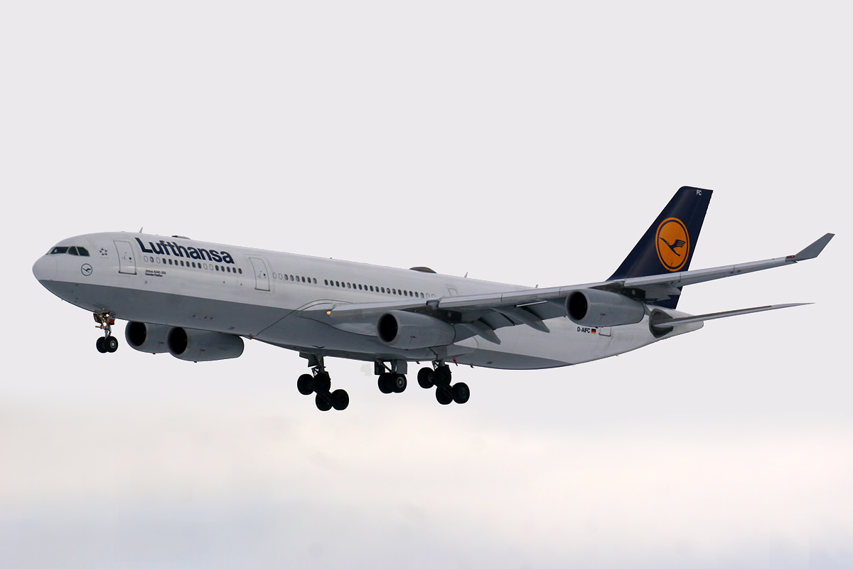 Munich (EDDM/MUC) Airport